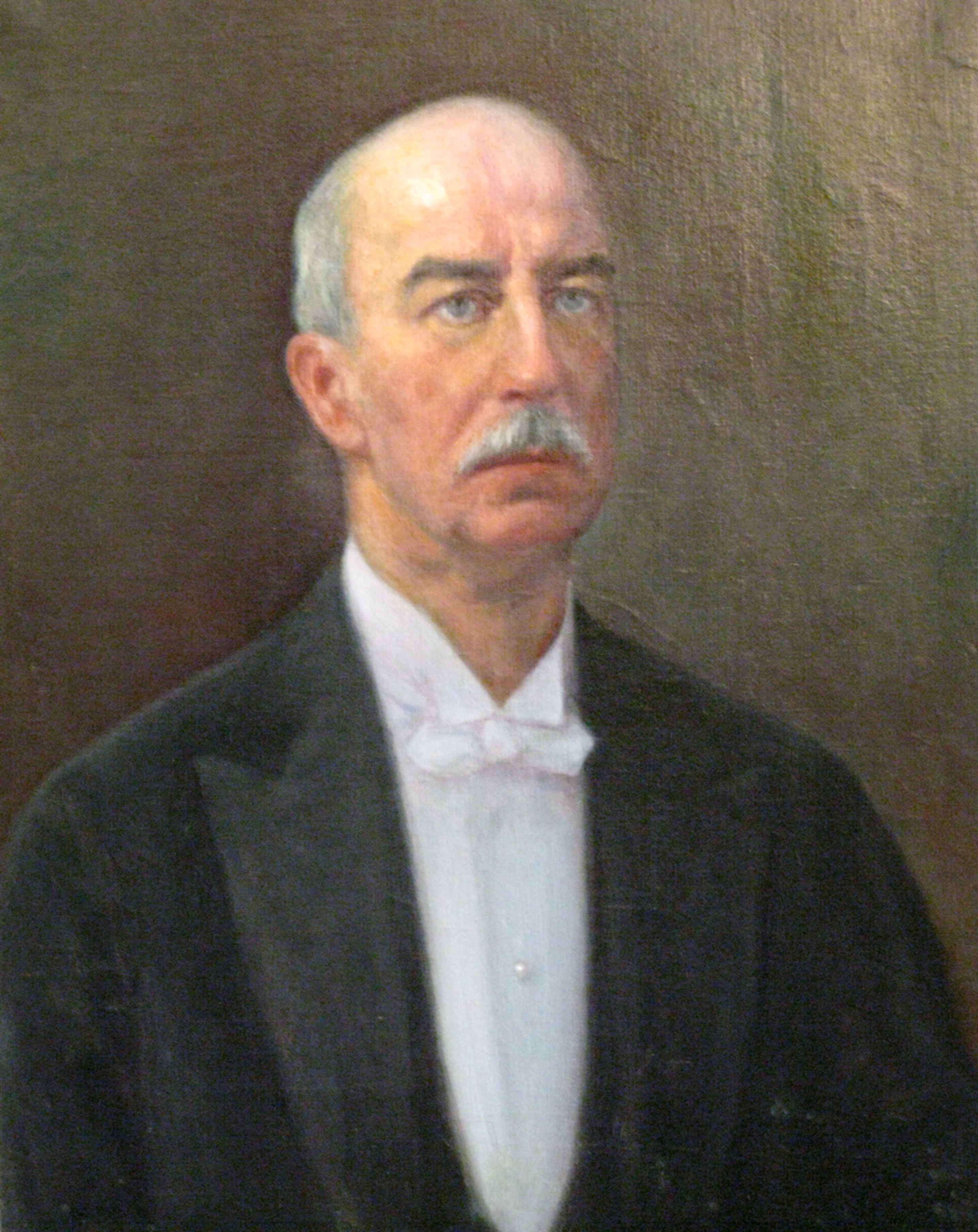 President of Poland Gabriel Narutowicz